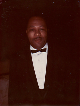 Norman Brown of Mills Brothers, 1966